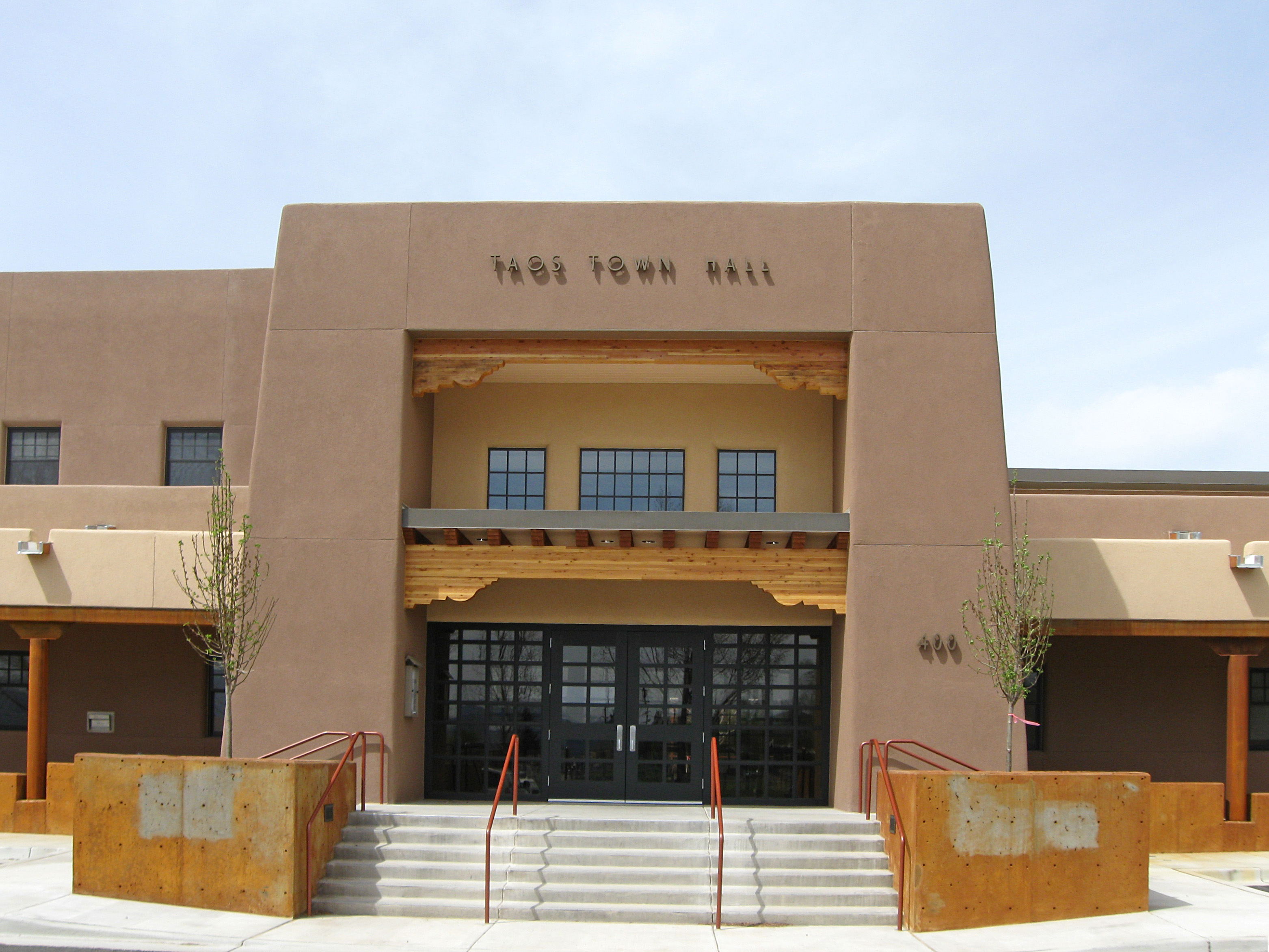 Taos (New Mexico) Town Hall, located at 400 Camino de la Placita.